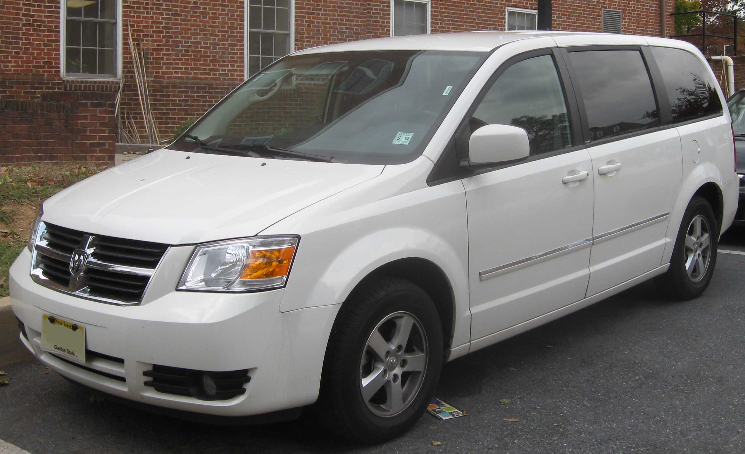 2008-2009 Dodge Grand Caravan photographed in College Park, Maryland, USA.